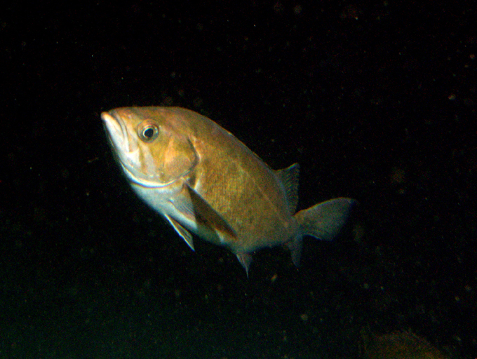 Widow rockfish (Sebastes entomelas) observed off Point Sur during a sanctuary seafloor monitoring survey using the Delta submersible.